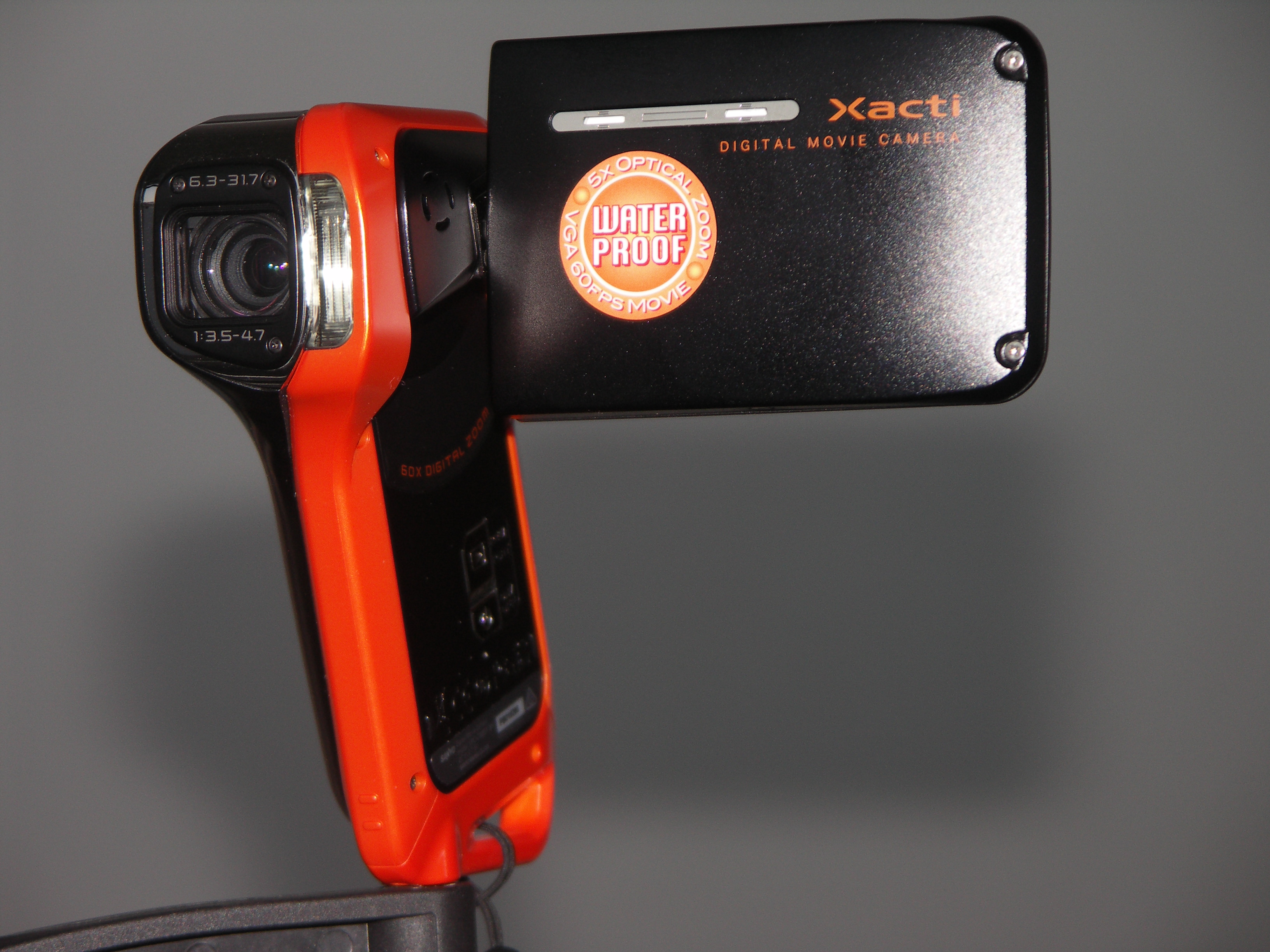 Sanyo Xacti AC8EX waterproof digital camcorder